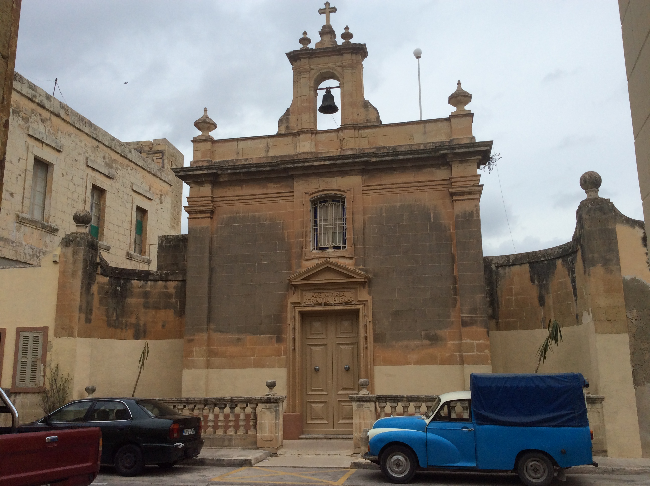 Chapel of our Lady This media is about Maltese cultural property with inventory number 01907.